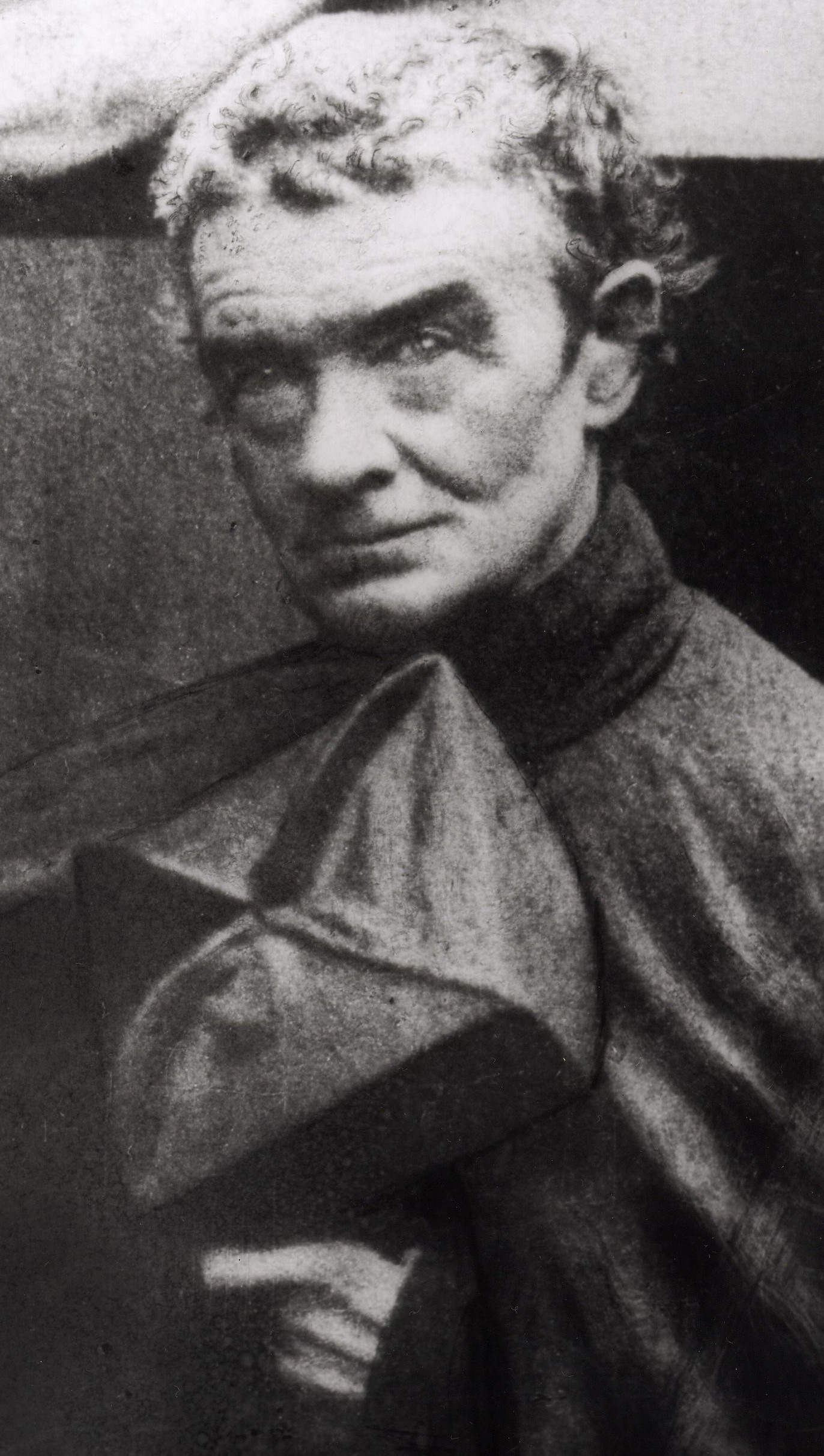 A detail of a photograph of Blessed Jacques-Desire Laval, the "Apostle of Mauritius," a Spiritan priest and blessed